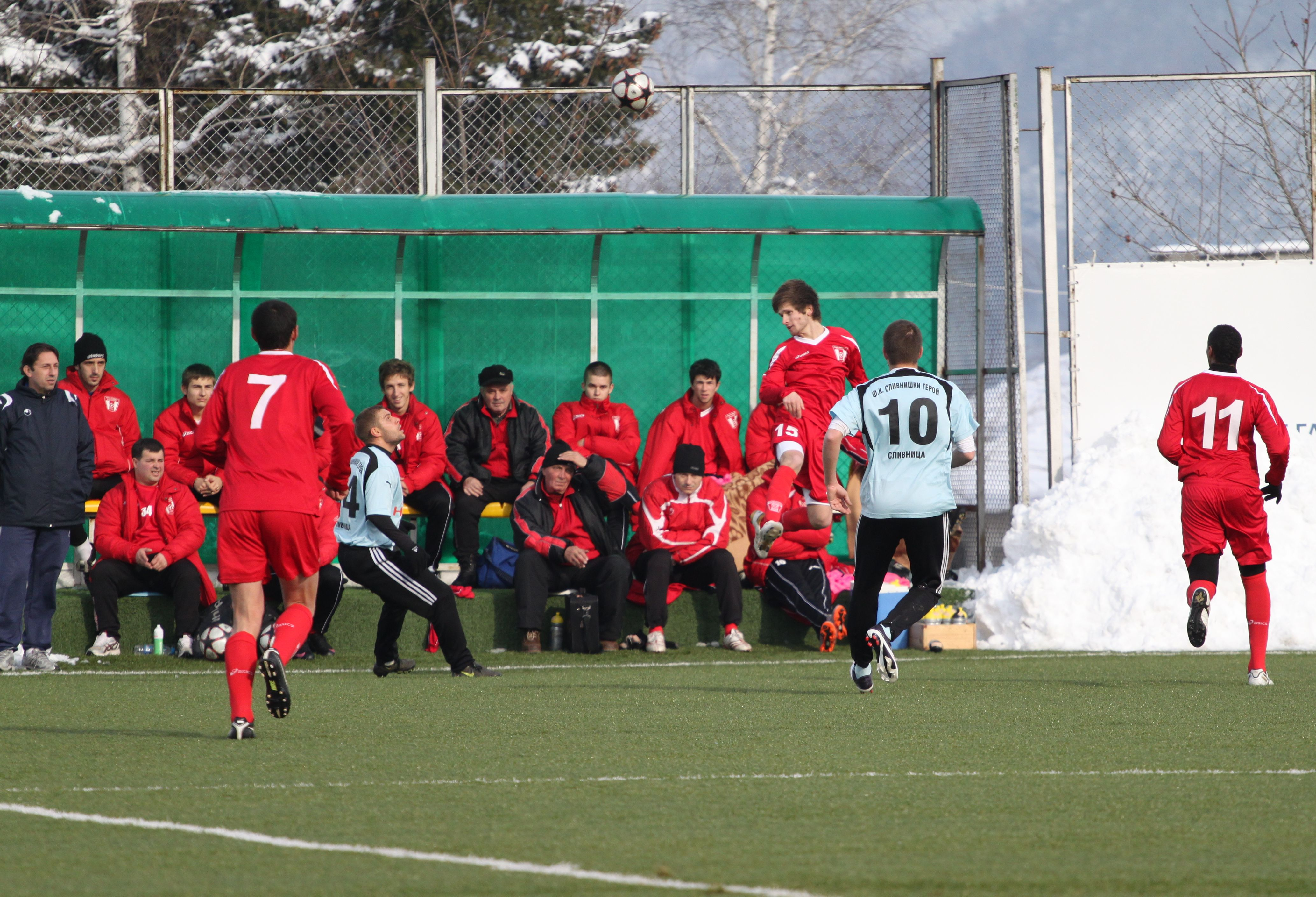 Chavdar Etropole staff